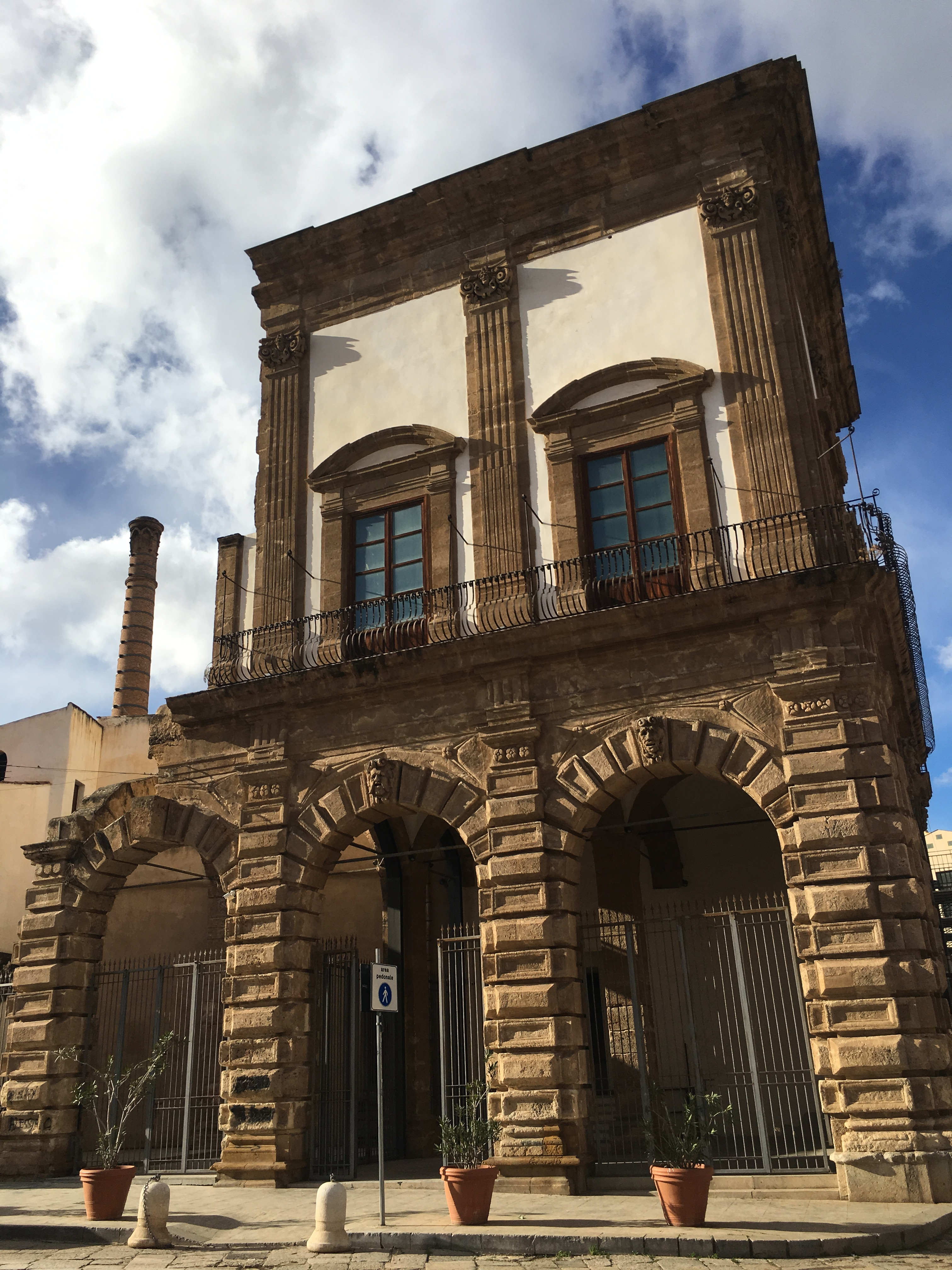 Oratorio dei Bianchi, frontal view